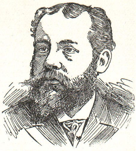 Hjalmar Hjorth Boyesen